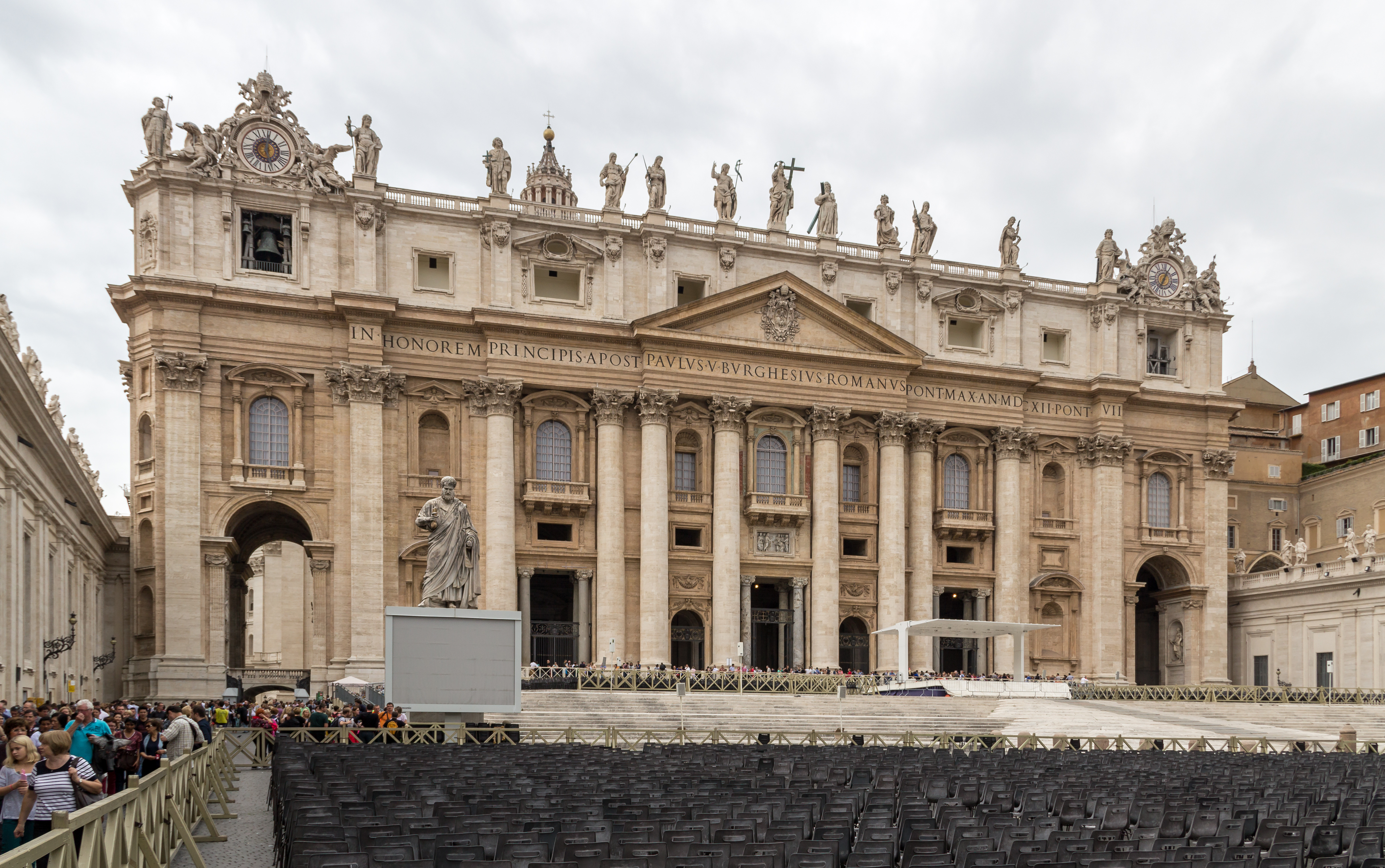 Saint Peter's Basilica, Vatican